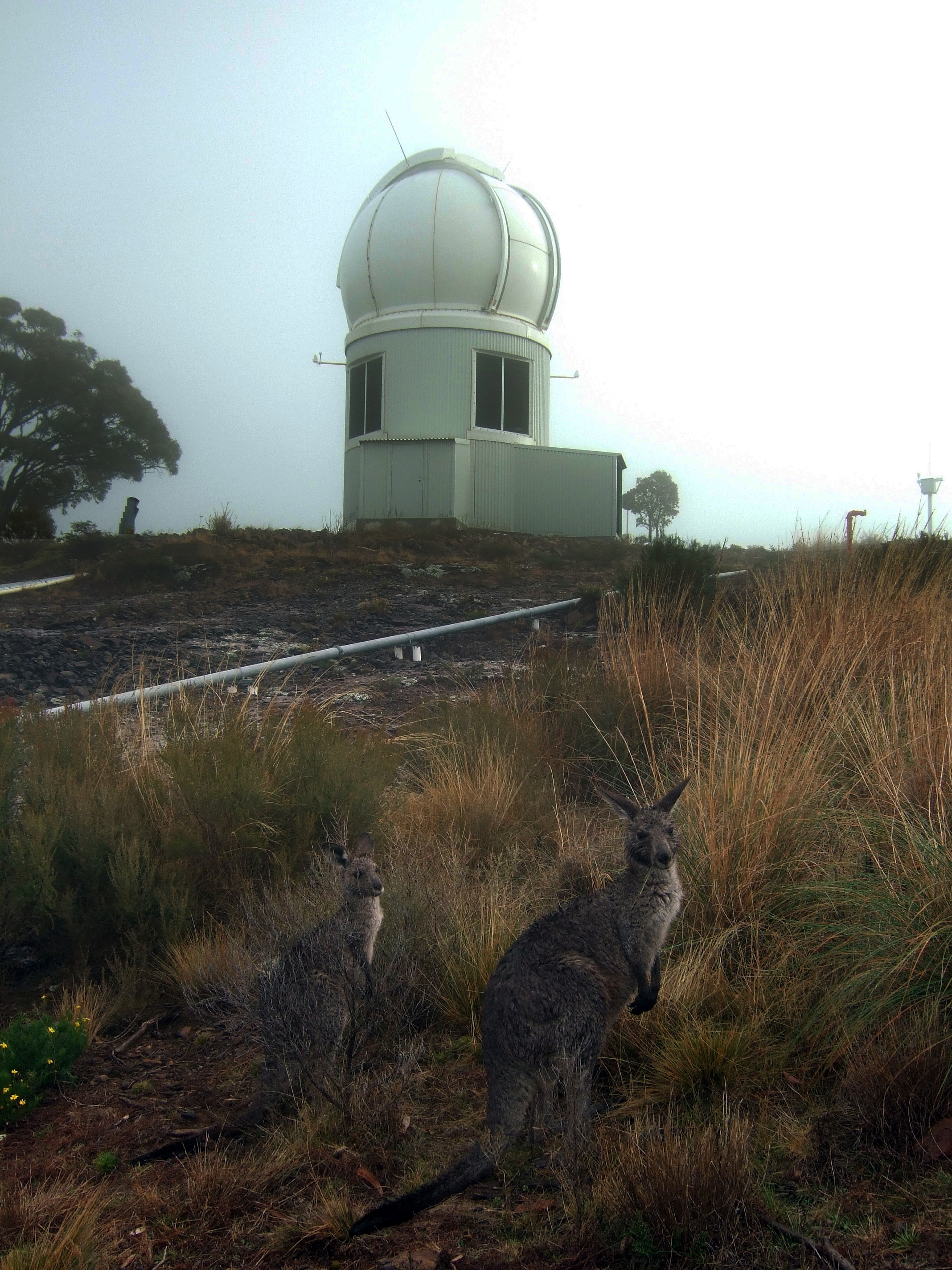 The SkyMapper telescope at Siding Spring Observatory and two Eastern Grey kangaroos.